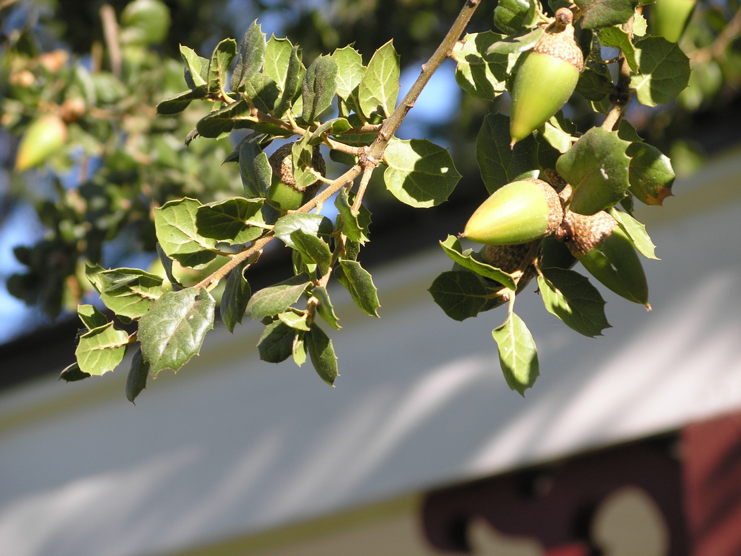 A Coast live oak (Quercus agrifolia) branch and leaves. At Los Encinos State Historic Park of the Rancho Los Encinos, Encino, San Fernando Valley, California.